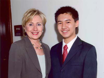 Then Senator Hillary Clinton with Conrad Tao on September 24, 2008, to recognize his being named a Davidson Fellow Laureate.